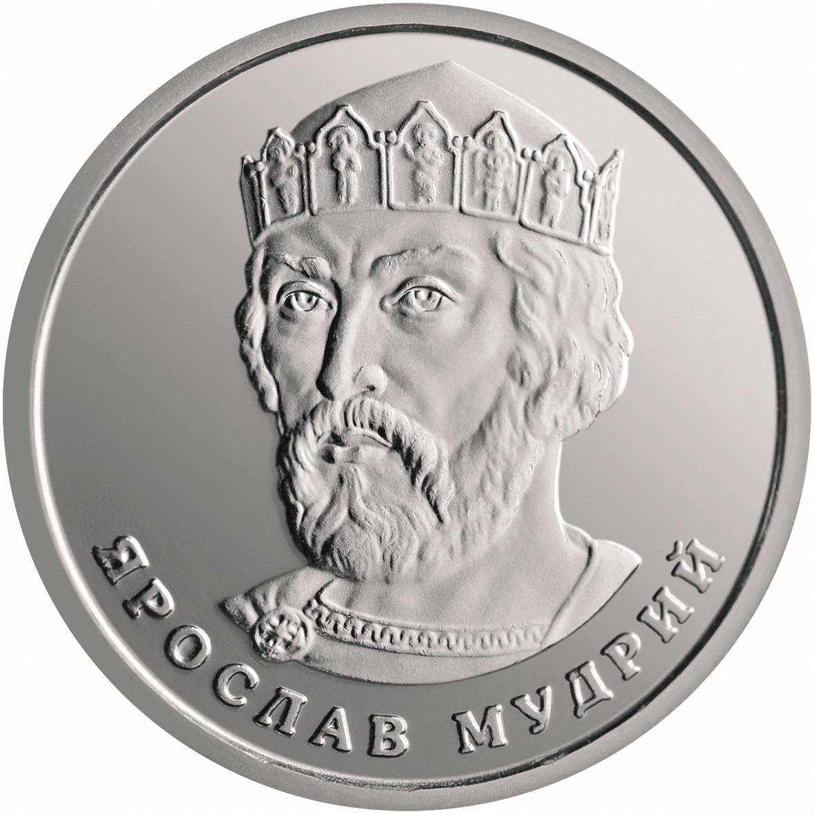 Ukrainian 2 hryvnia coin of 2018 series, reverse. Here is depicted Yaroslav the Wise, the Grand Prince of Kiev. Steel with galvanic coating, 20.2 mm in diameter, weights 4.0 g, reeded edge.